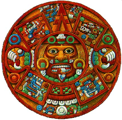 Aztec sunstone central disc.